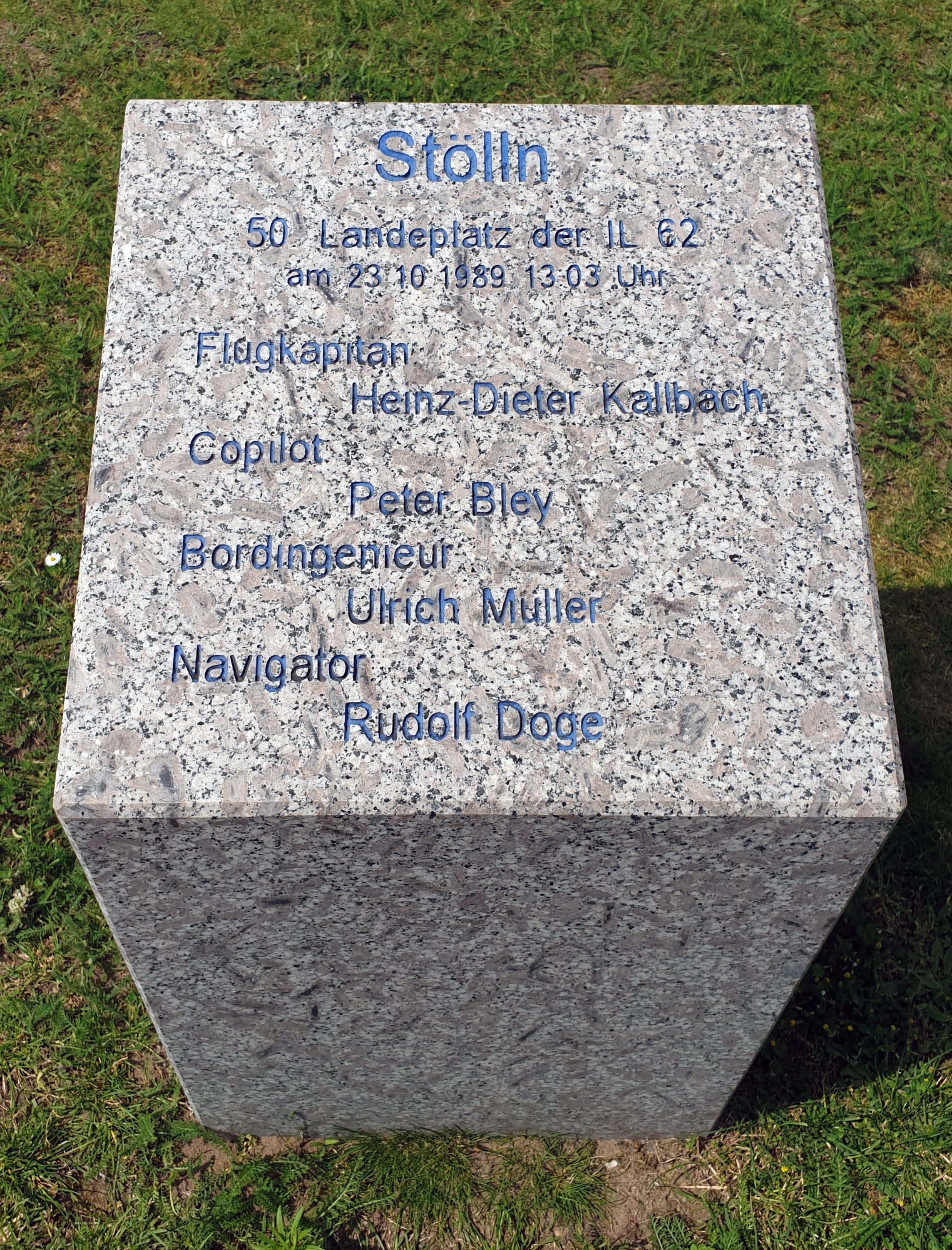 Memorial stone, Heinz-Dieter Kallbach, Peter Bley, Ulrich Müller and Rudolf Döge, Am Gollenberg, Gollenberg, Germany